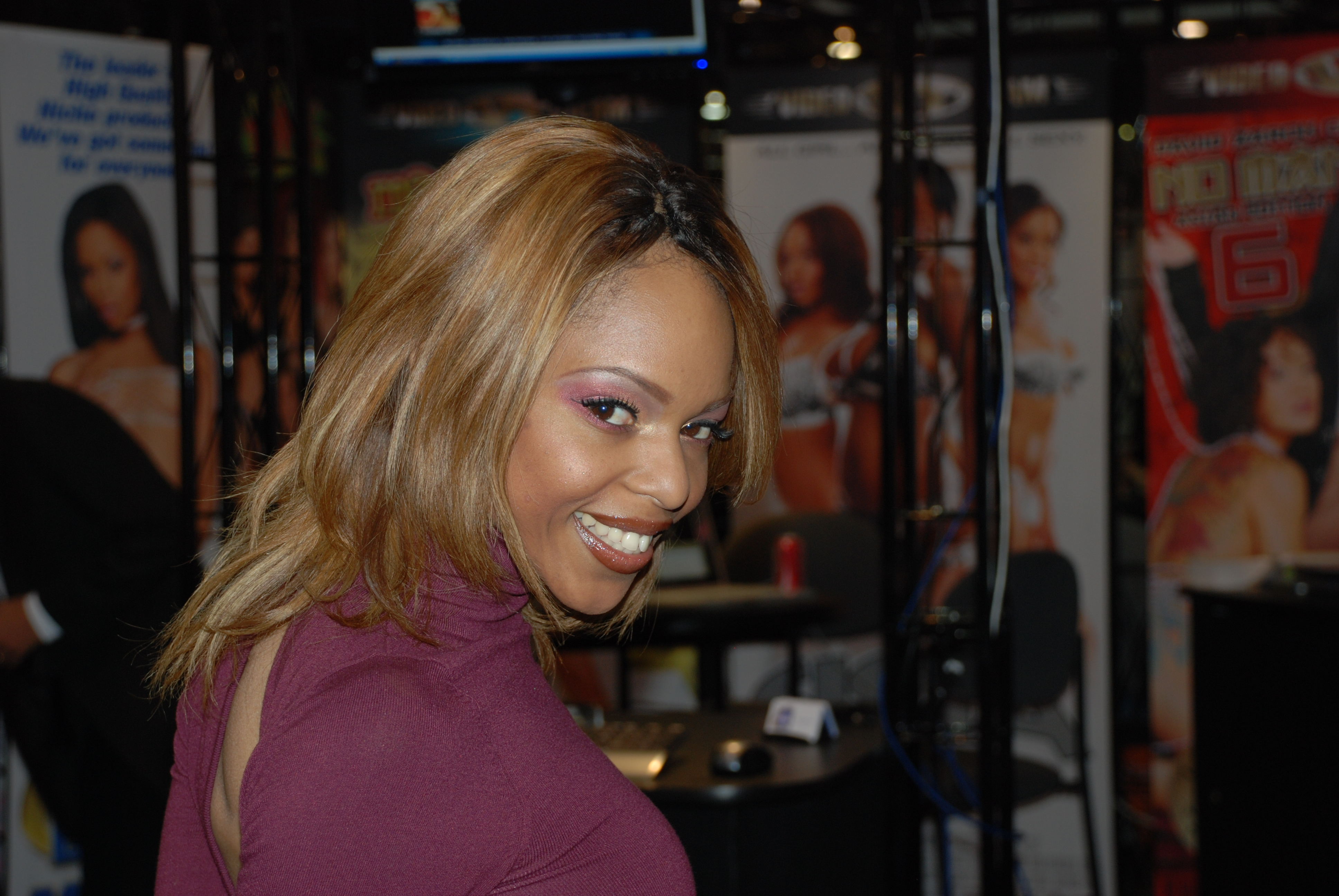 Marie Luv at the 2009 AVN Adult Entertainment Expo